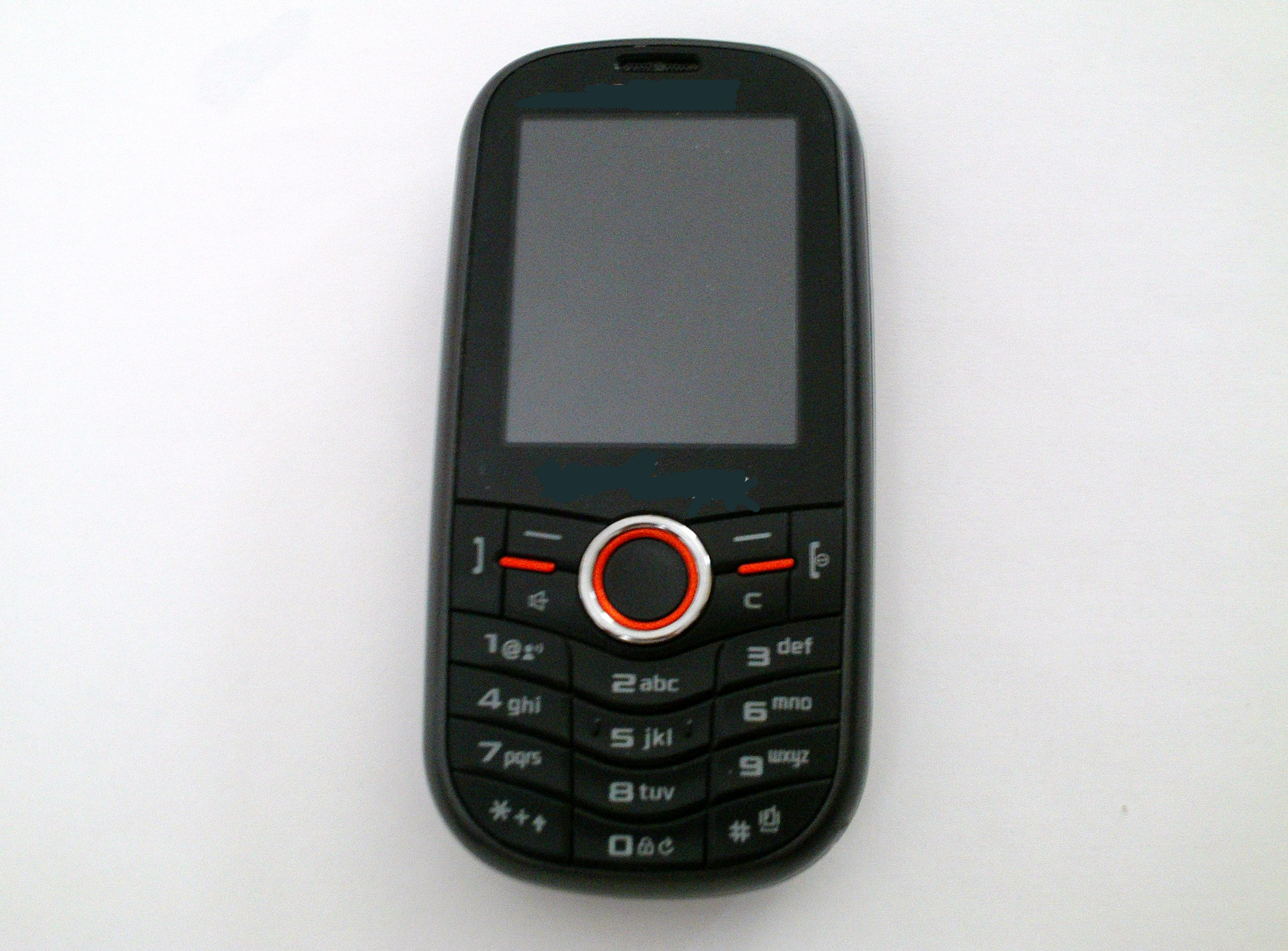 A photo of a Samsung Intensity(SCH-U450)